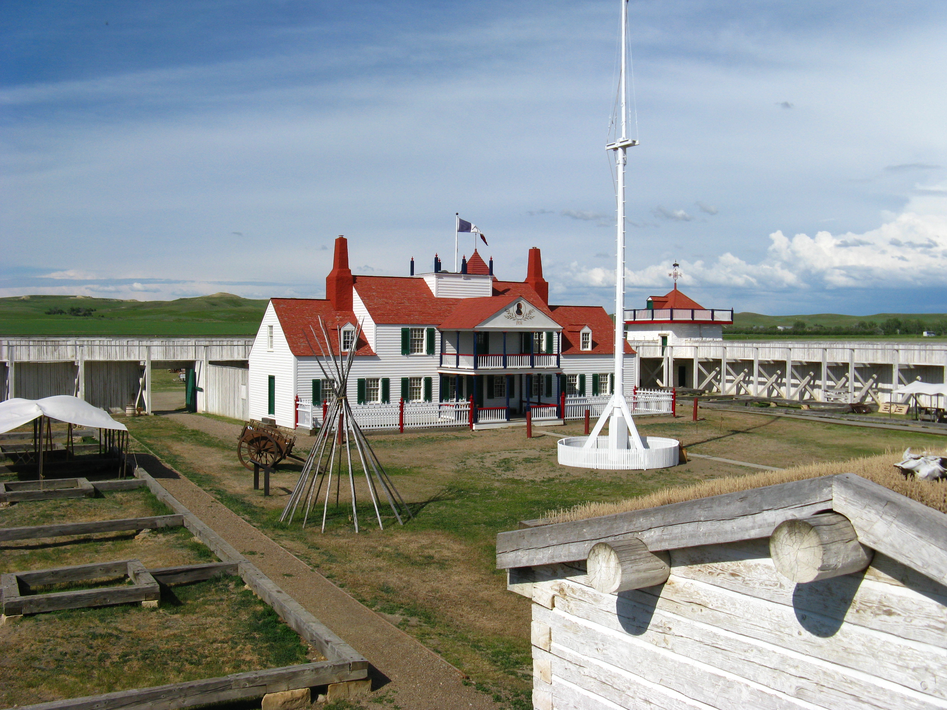 Central Courtyard of Fort Union Trading Post National Historic Site